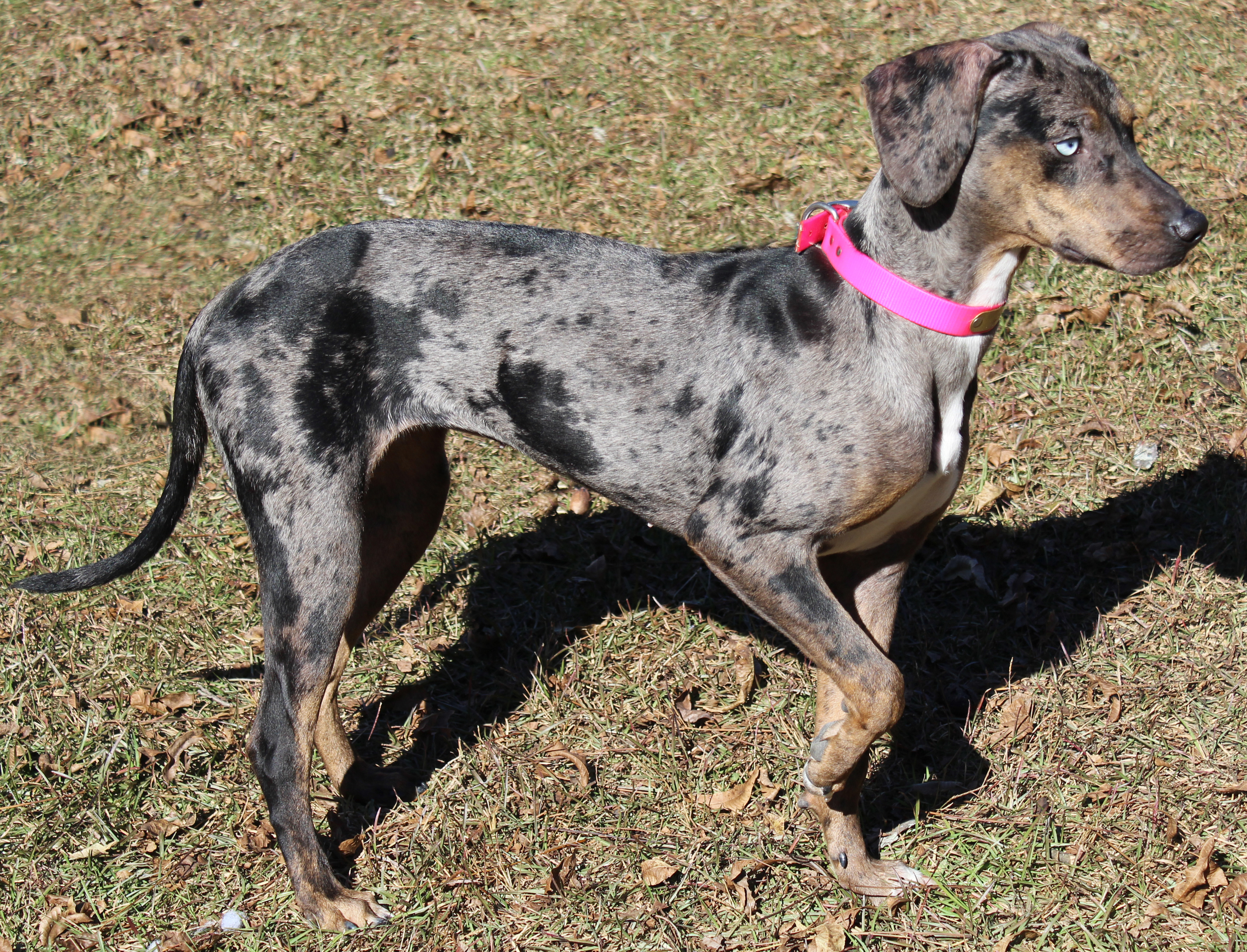 Purdy; female catahoula. Blue leopard 1yr old